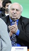 Yury Beliaev at PFC CSKA Moscow fans meeting